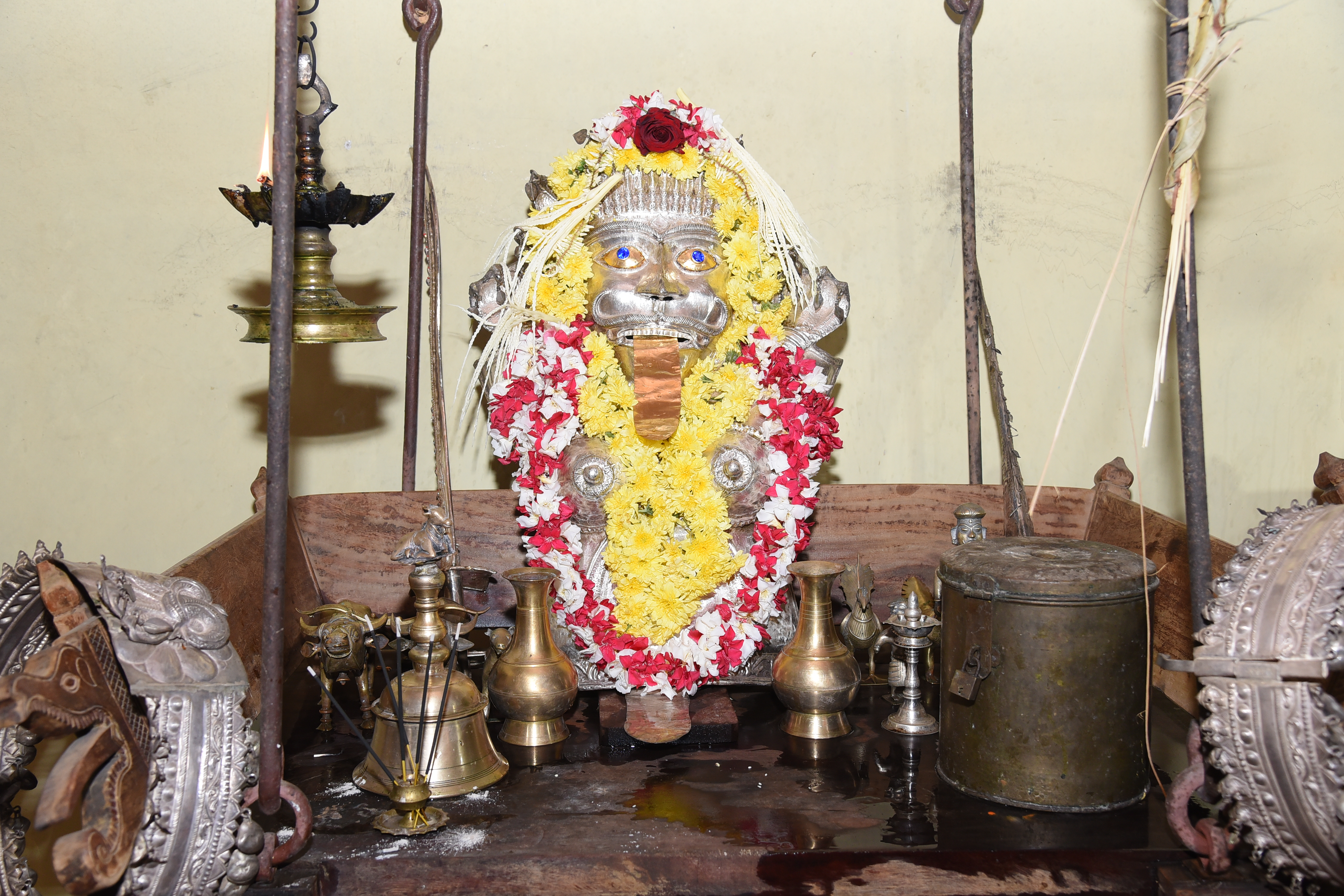 Silver Mask of Pattada Rajan Daiva Kantar Jumadi, the patron deity of the feudal Ballal family of Moodubelle. This mask is kept at a shrine near the Belle Badagumane manor house of the Ballal Clan. The clan is descended from a branch of the Jain Ballala rulers of Yerdanadu,a small feudatory of the Vijayanagara Empire. The clan no longer practices Jainism and are officially Shaivite. However,they perform rituals for their Jain ancestors called Kanyada Agel in the month of September.